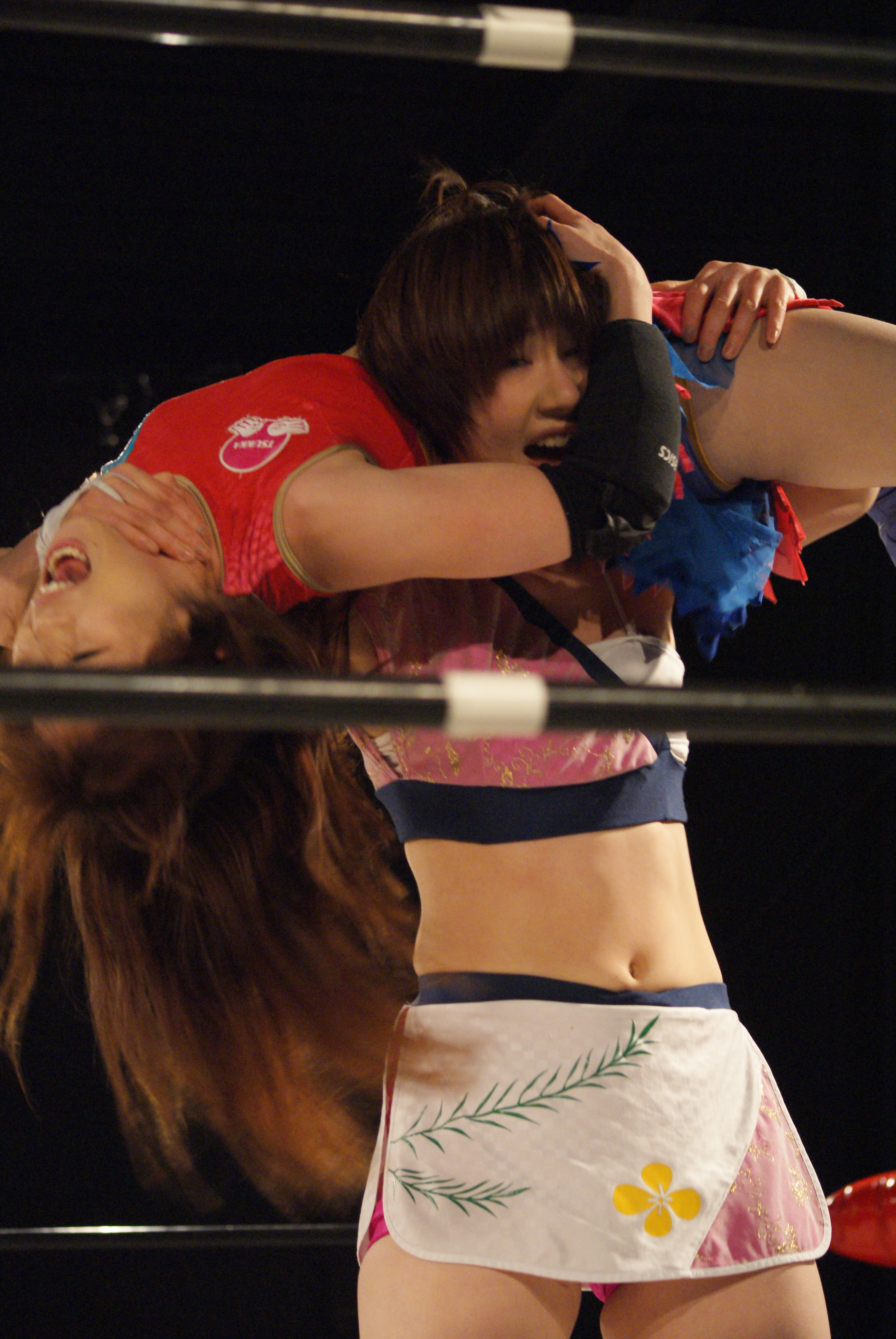 Professional wrestler Maki Narumiya holding Tsukasa Fujimoto in an Argentine backbreaker.